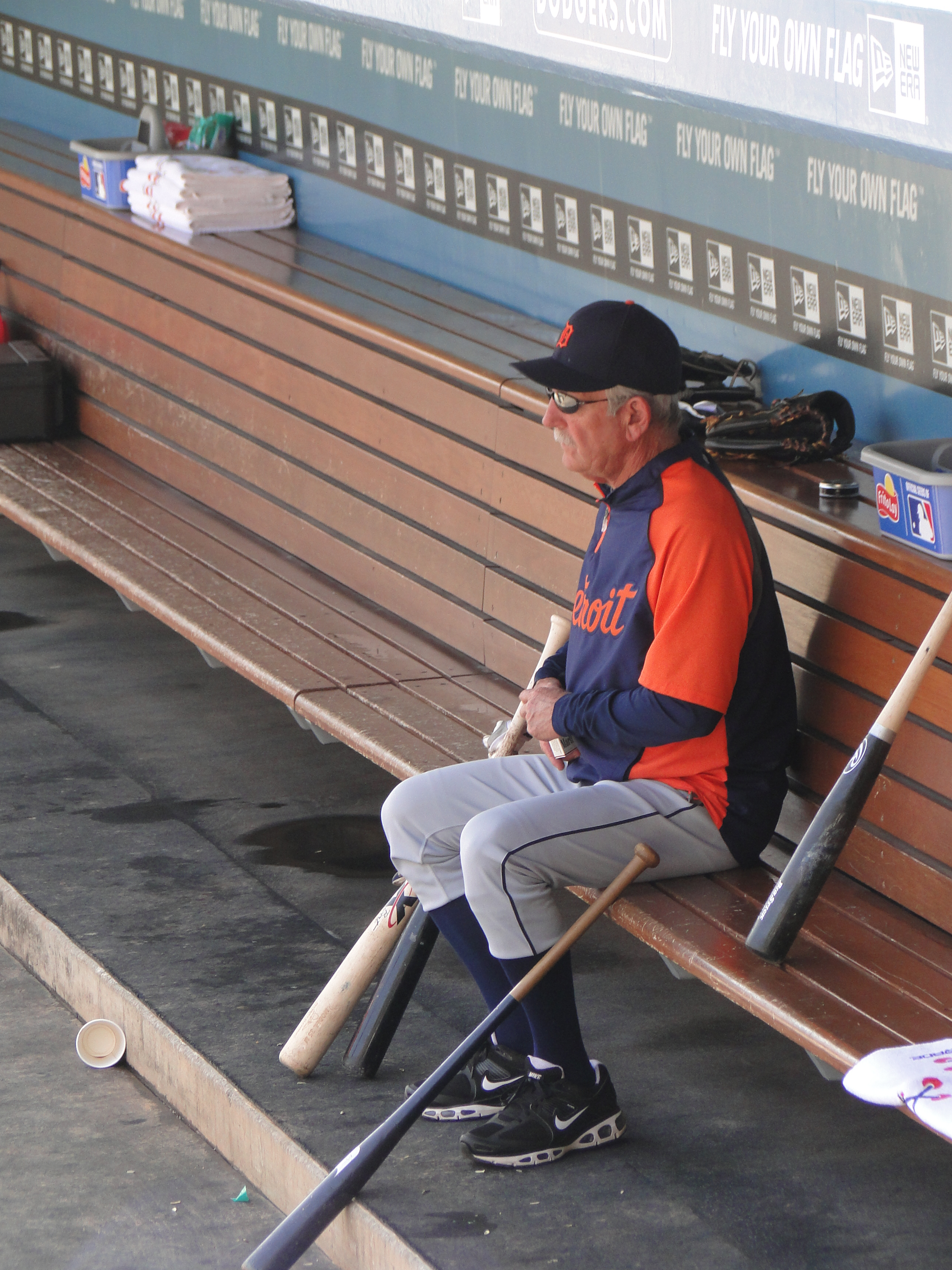 Jim Leyland pregame at Dodger Stadium